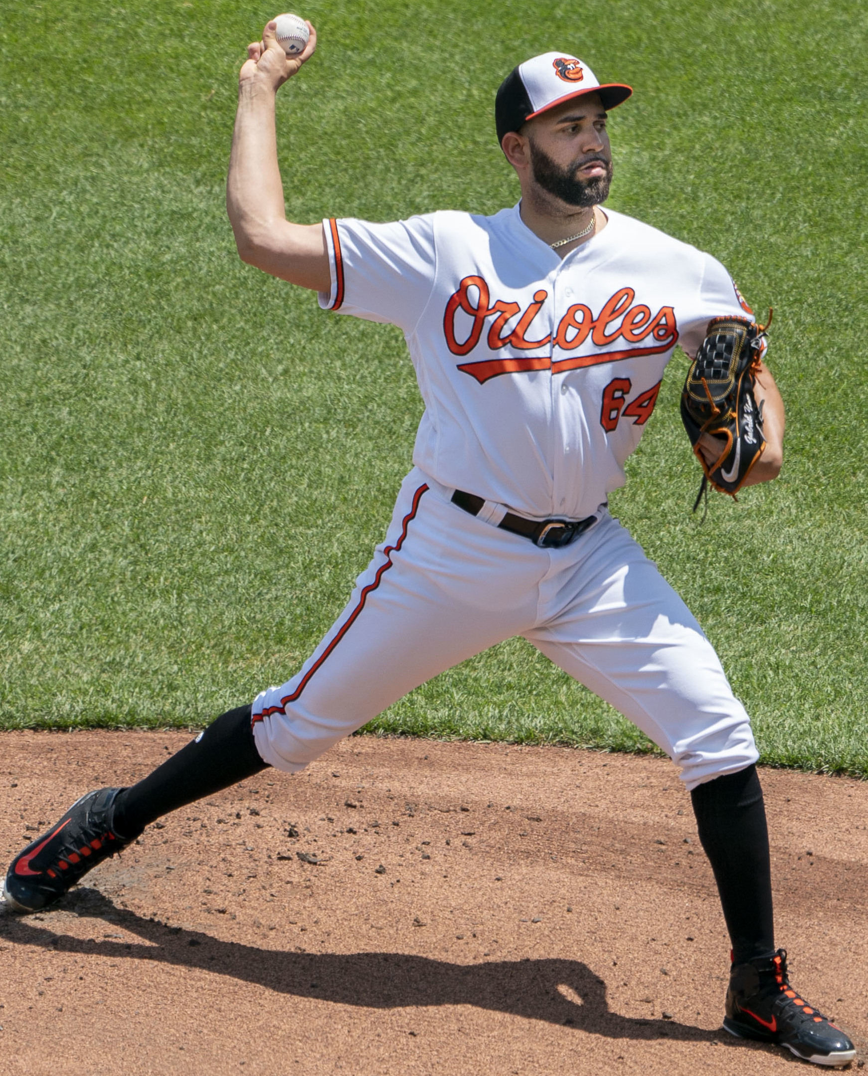 Indians at Orioles 6/30/19